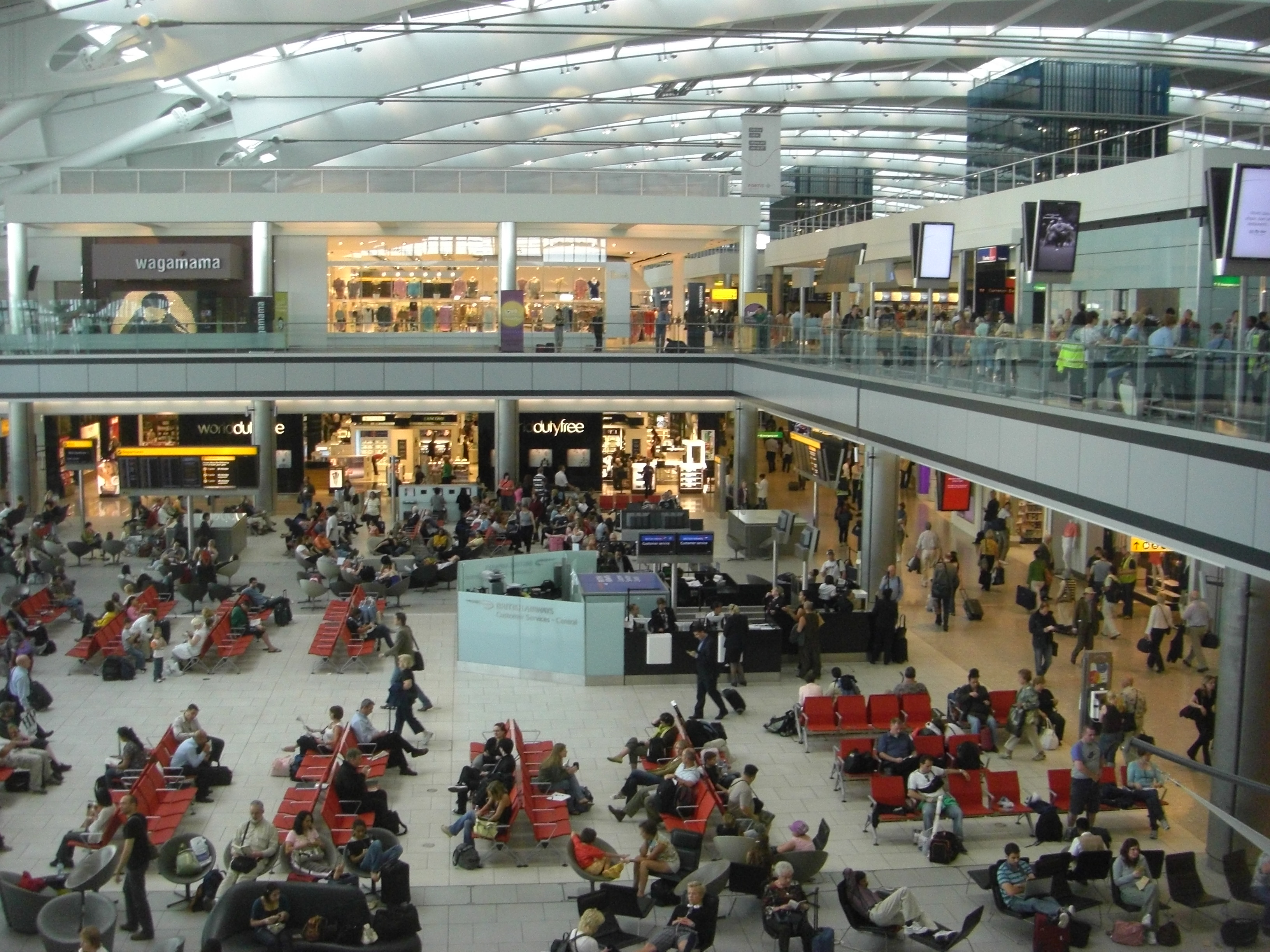 Inside the passenger area of Heathrow Terminal 5.